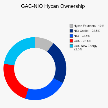 GAC-NIO Hycan Ownership